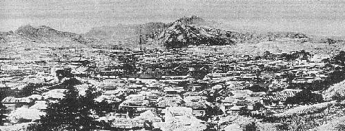 Hanseong in 1905